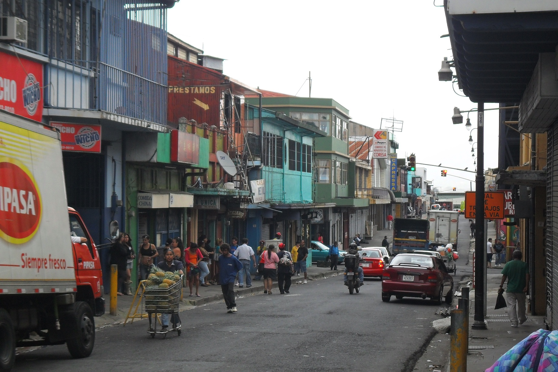 A part of San Jose, Costa Rica